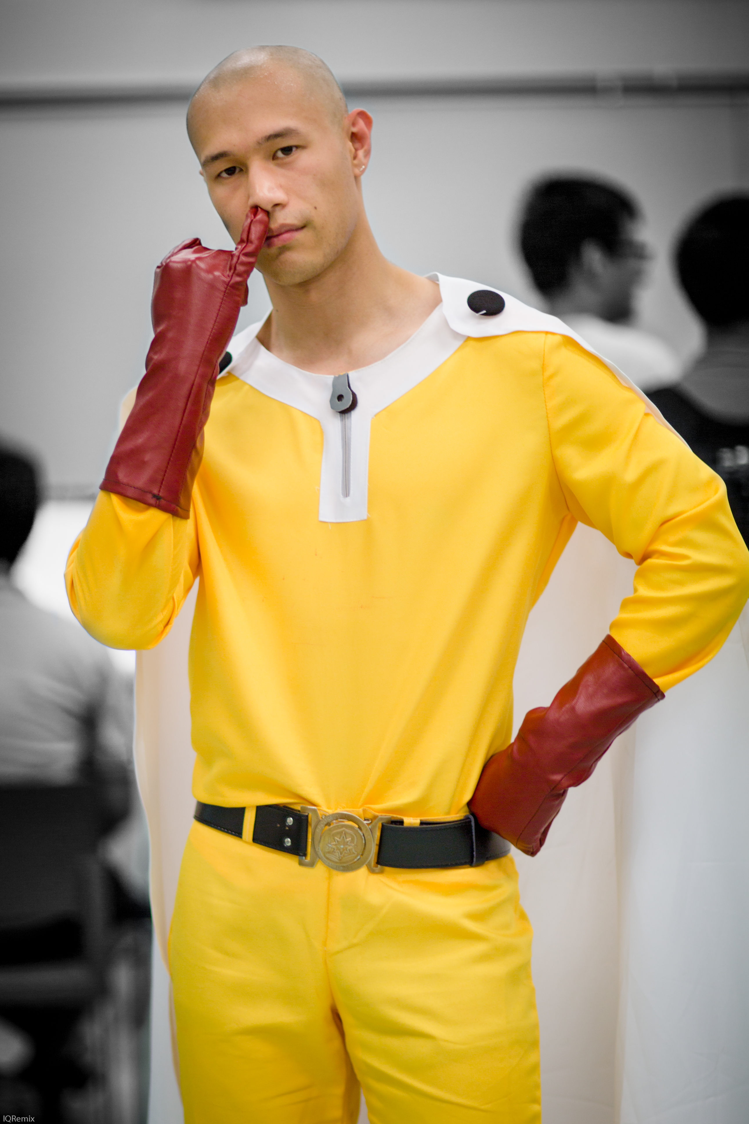 Animethon 23 - 2016